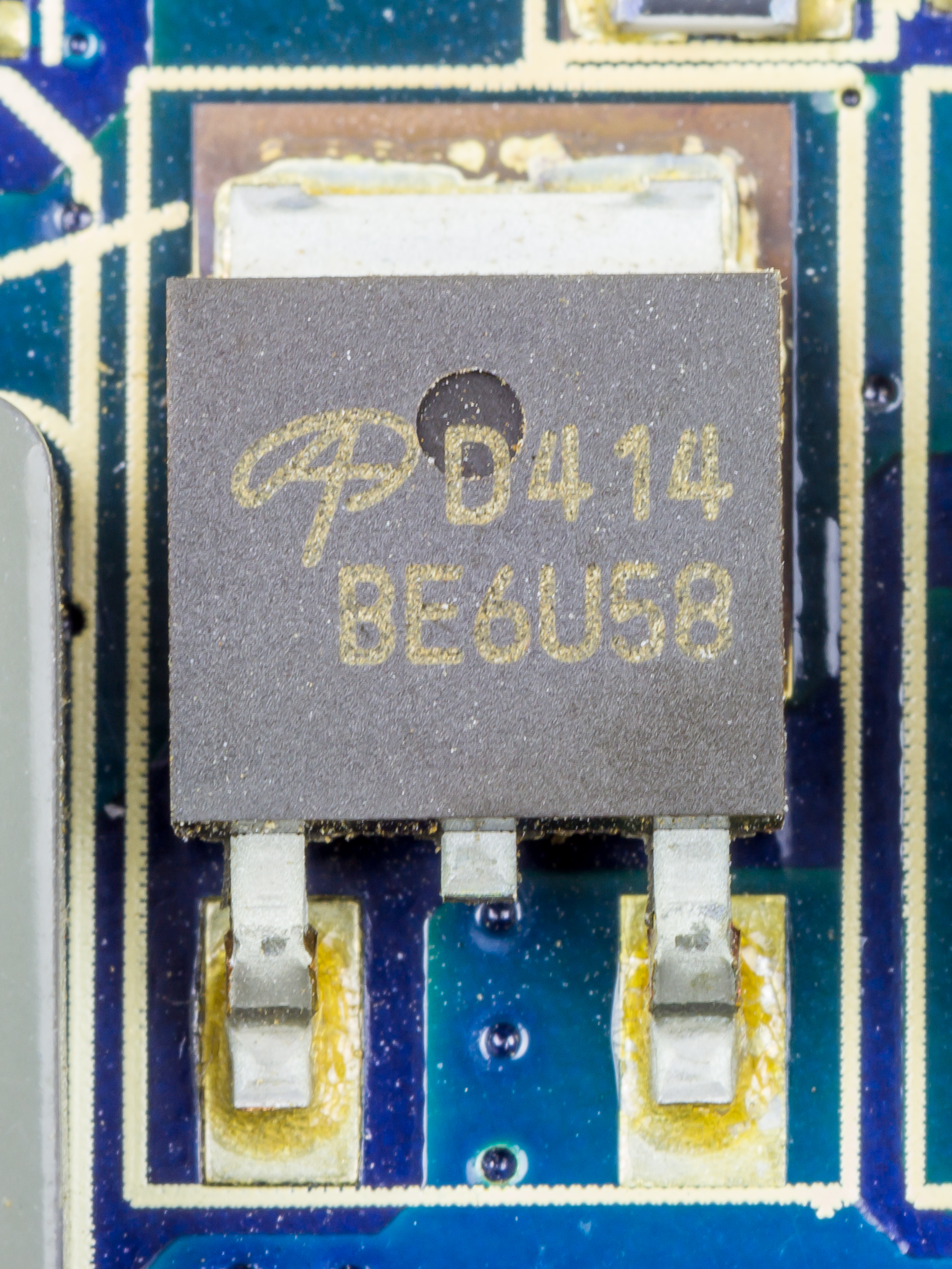 ATI Radeon X1650 Pro - Alpha & Omega Semiconductor D414 - N-Channel Enhancement Mode Field Effect Transistor